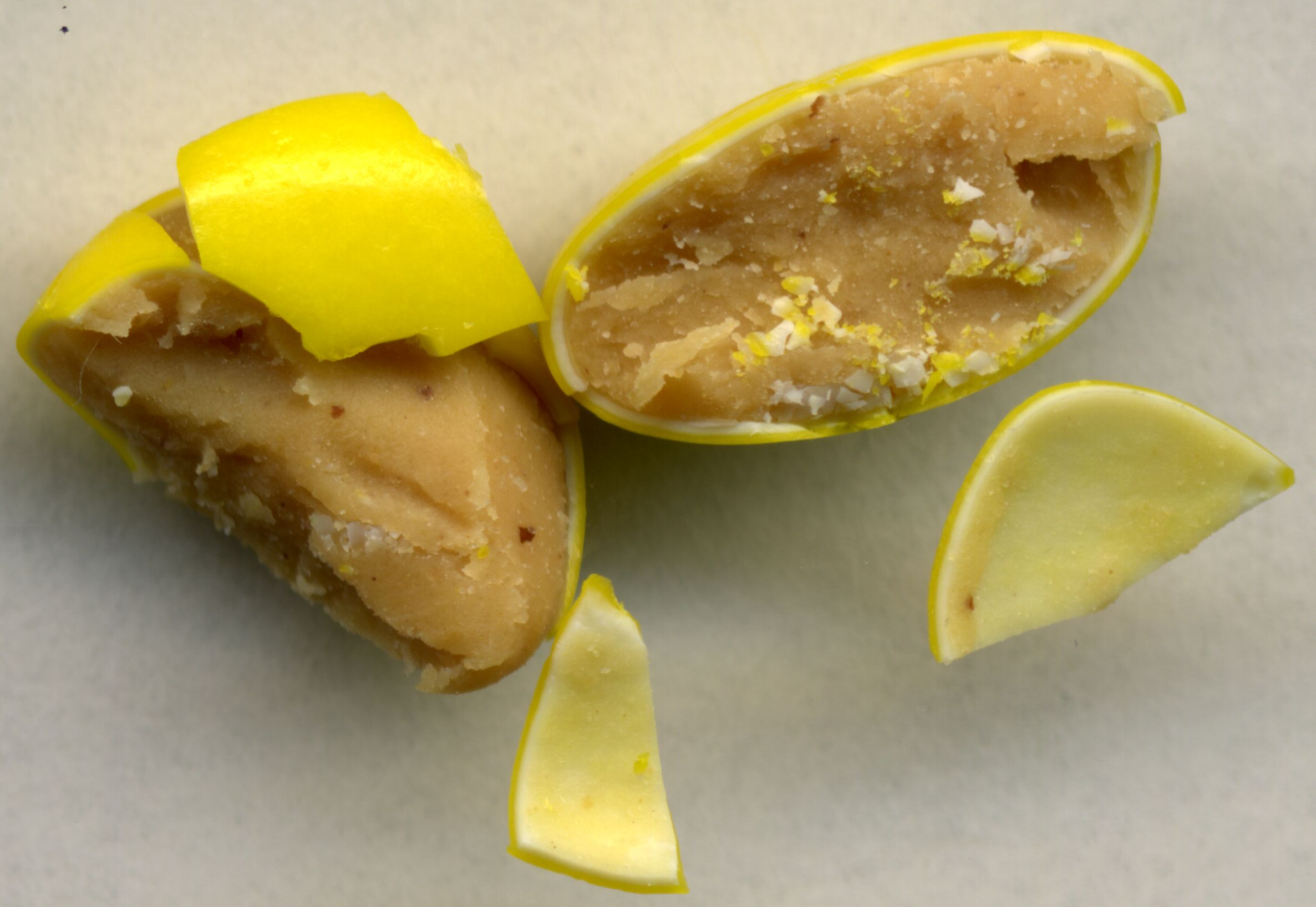 Anatomy of a yellow Reese's piece. Imaged with flatbed scanner